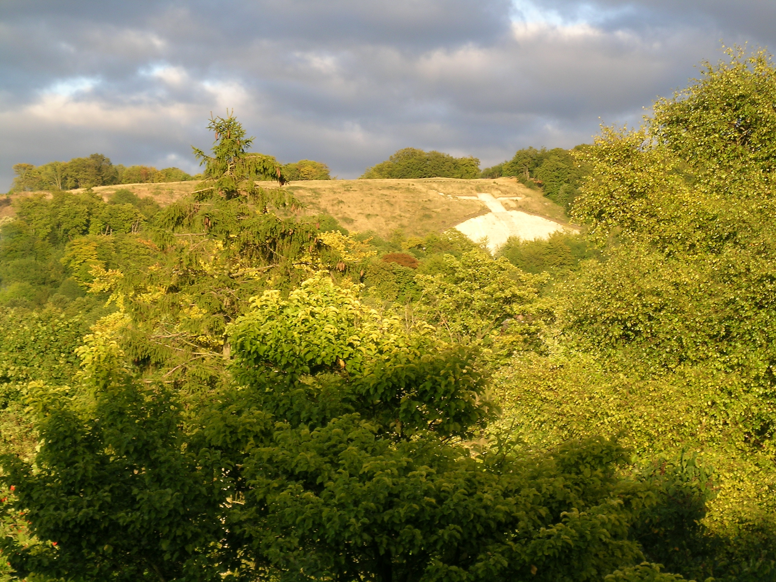 Hill figure on Whiteleaf Hill, known as the Whiteleaf Cross.